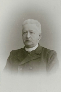 Portrait of Gerhardus Wijnandus Bruinsma (1840–1914), Dutch physician and co-founder of the Vereniging tegen de Kwakzalverij in 1881.